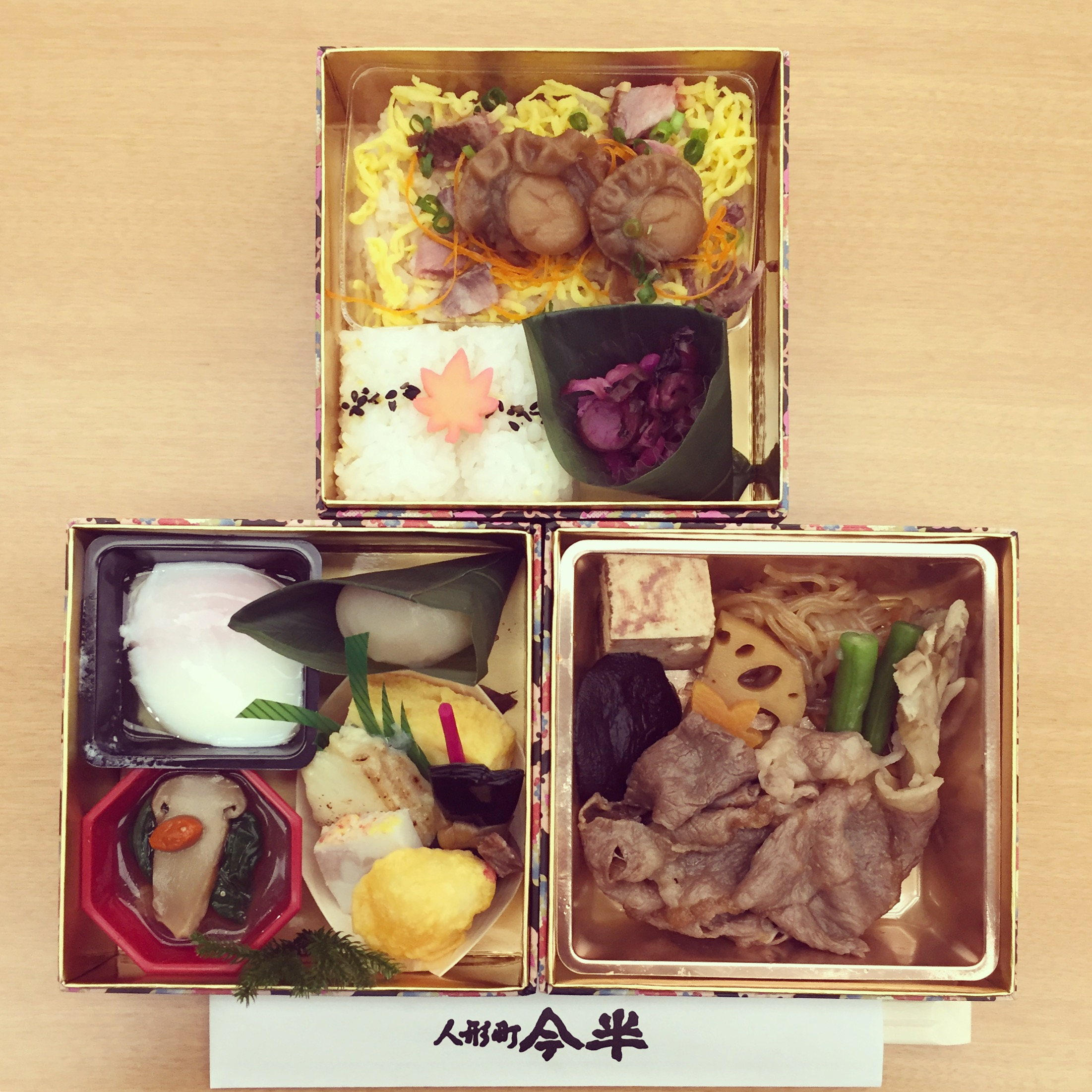 Japanese ORIZUME BENTO, or traditional meal in the paper boxes, served by Ningyocho Imahan Co,. Ltd.